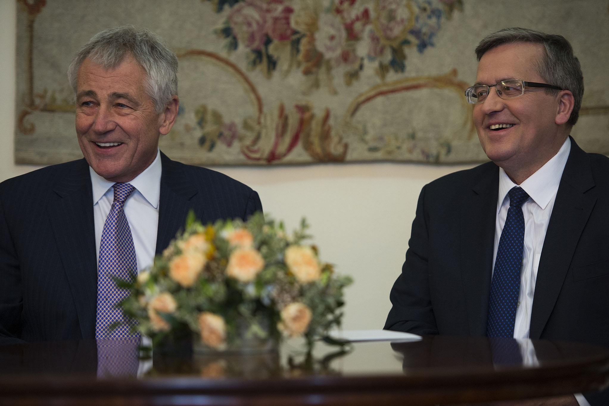 U.S. Defense Secretary Chuck Hagel, left, meets with Polish President Bronislaw Komorowski at the Presidential Palace in Warsaw, Poland, Jan. 31, 2014. Hagel is on a trip to Europe to meet with defense leaders and attend the 50th Munich Security Conference.